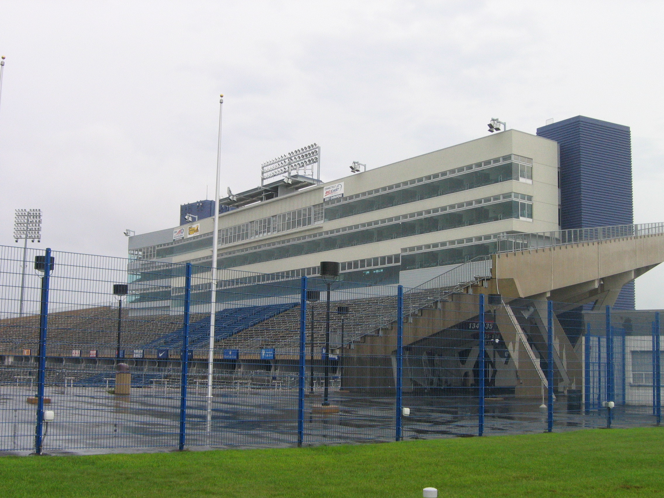 Football & Basketball Facilities UCONN Stadium, located off-campus in East Hartford